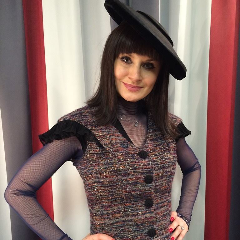 Edyta Piasecka as Fiorilla in Il turco in Italia by Rossini